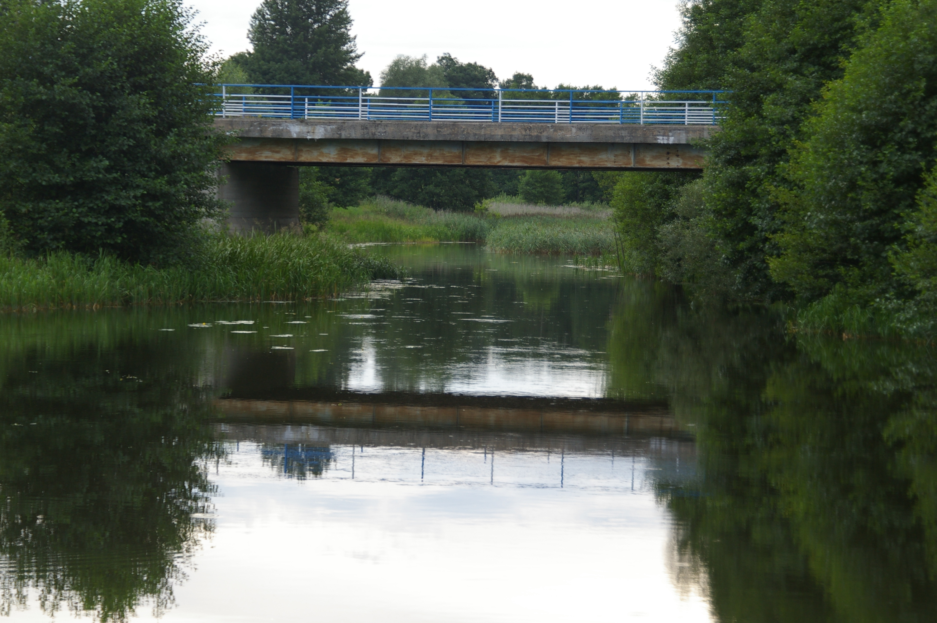 Rospuda River, near village Raczki Małe